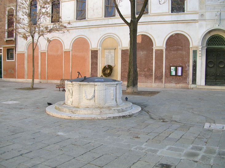 Pozzo veneziano in campo San Vio, Dorsoduro. Saint George's Church in the background